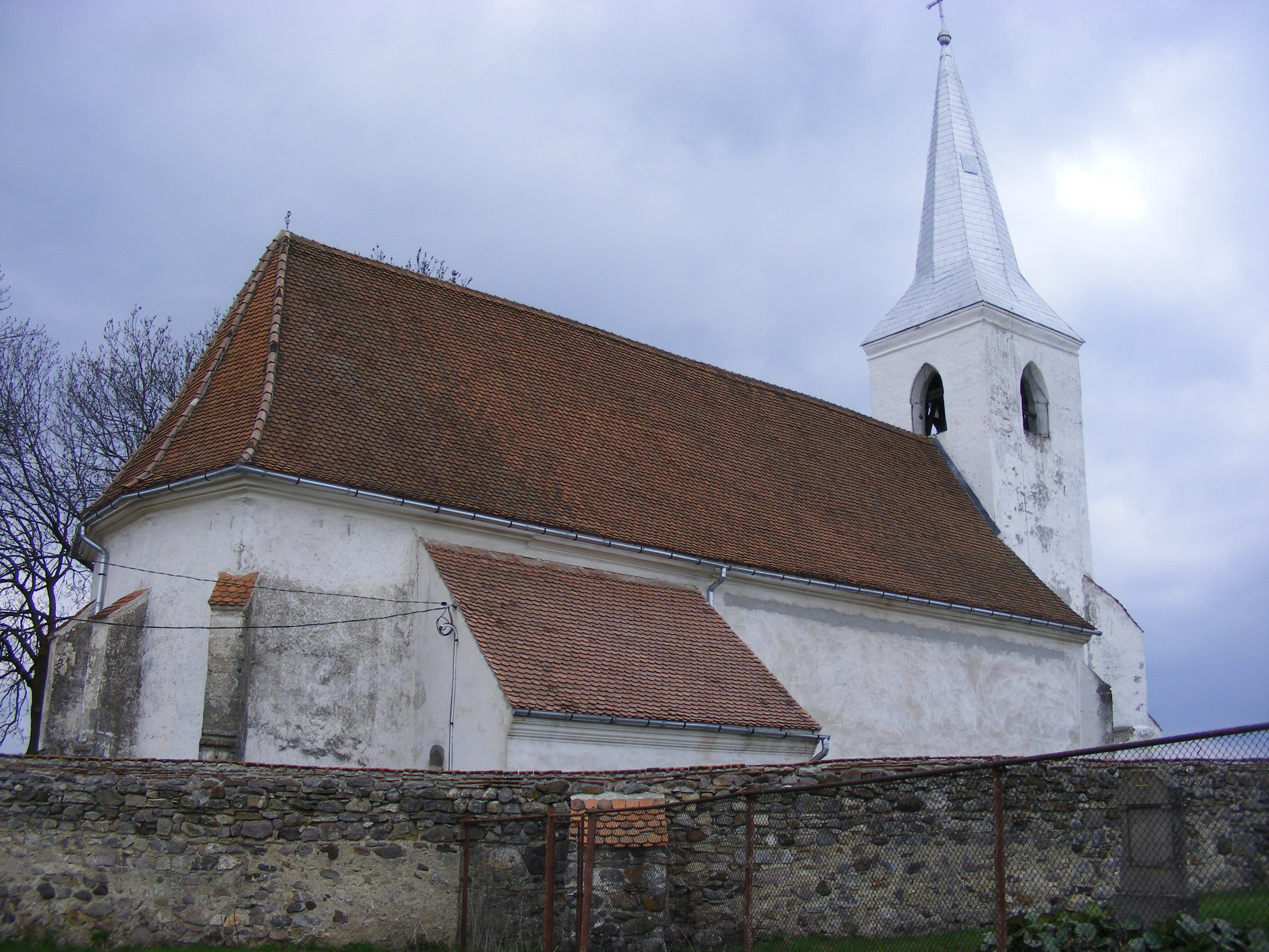 The saint John church in Csíkdelne (Delniţa), Transsilvany, Harghita county